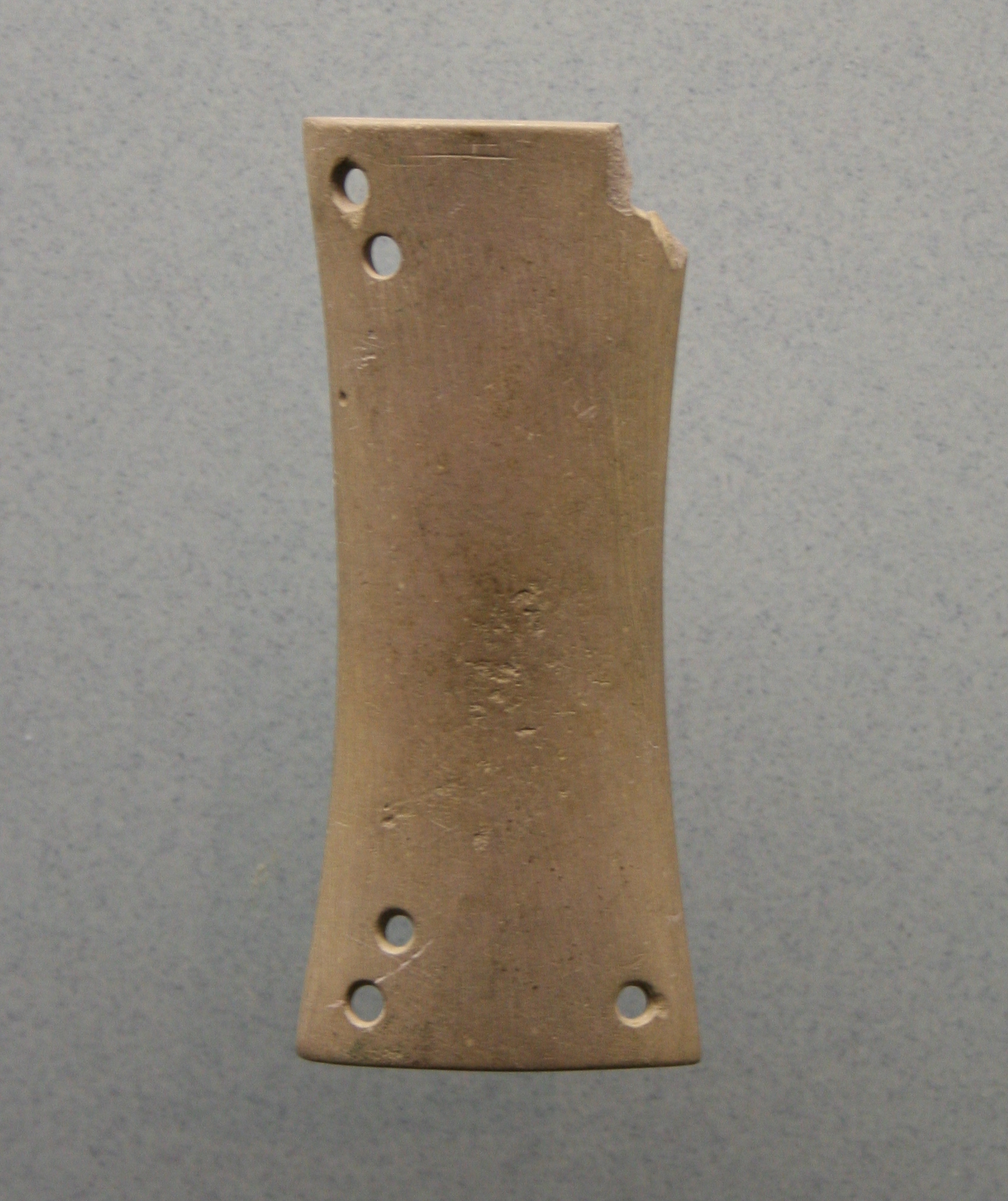 Archaeological state museum Schleswig-Holstein, Gottorf Castle